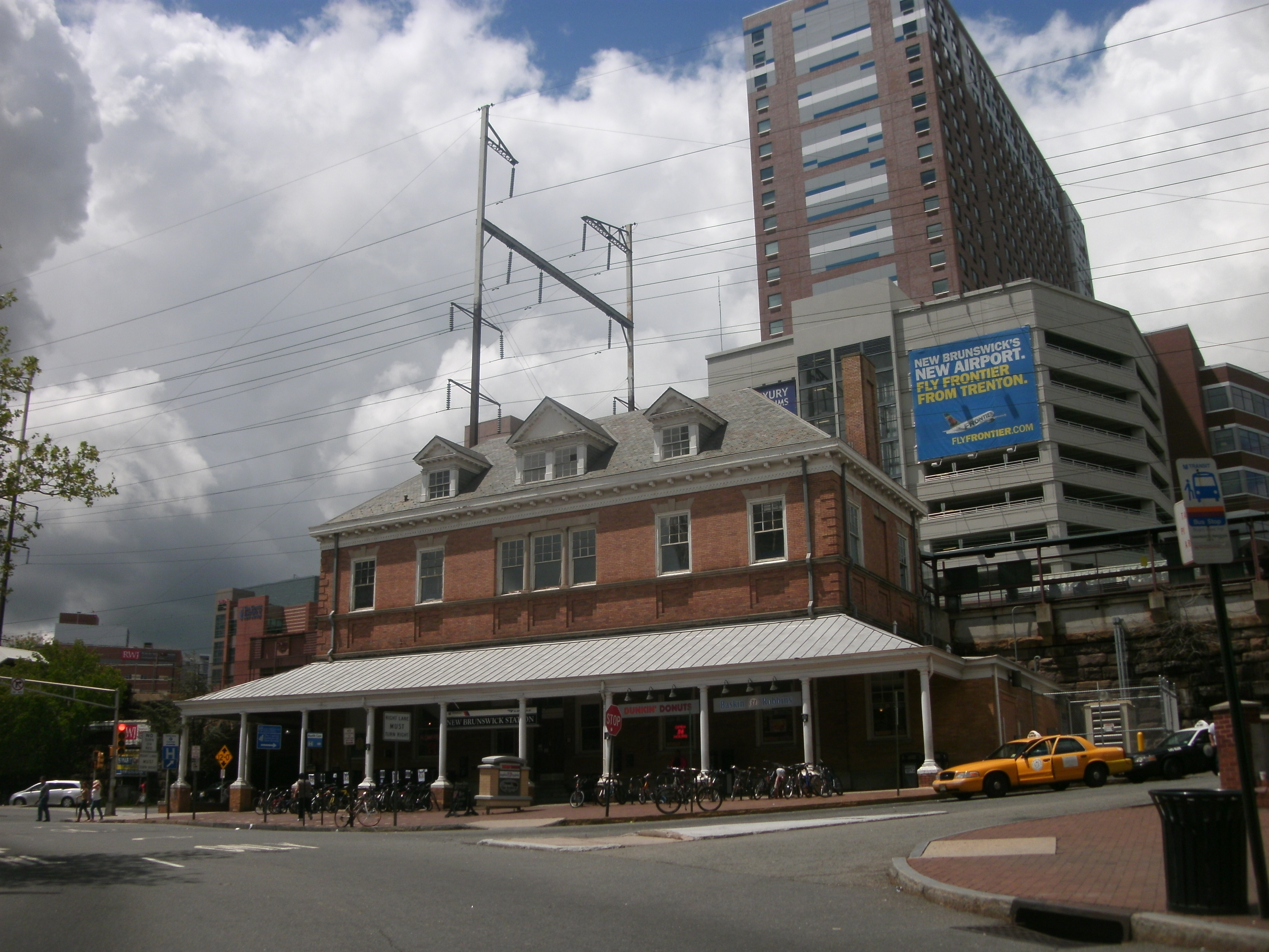 The 1903 station depot at the New Brunswick station in New Brunsick, New Jersey.